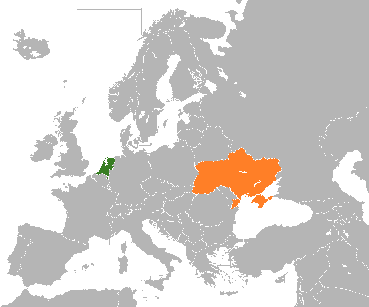 Netherlands-Ukraine locator map.